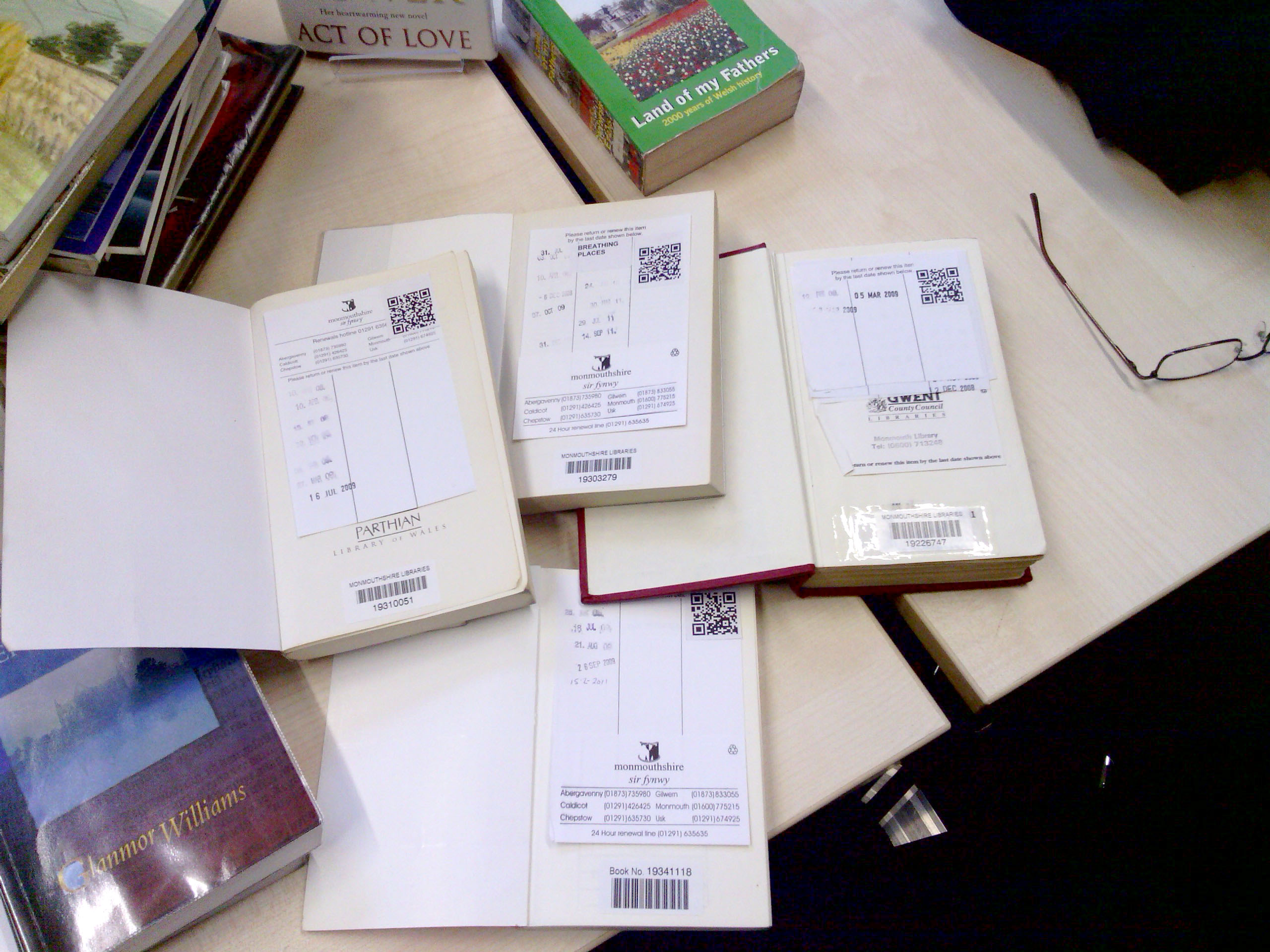 Monmouthpedia at Library QRpedia codes in books